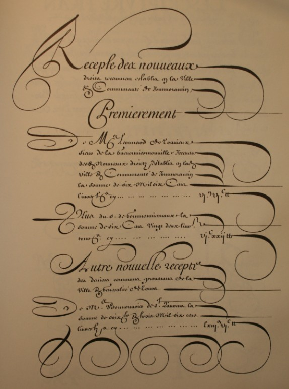 Calligraphy example